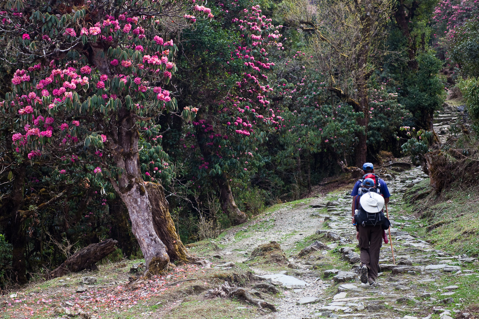 Trail leaving up into the rhododendron forest